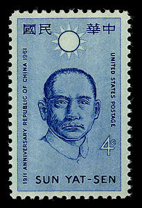 US stamp honoring Sun Yat-sen